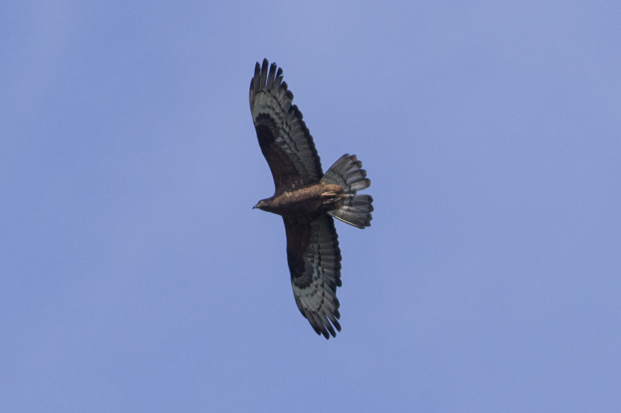 European honey buzzard (Pernis apivorus), dark coloured type, at the island of Fehmarn, Germany, during migration